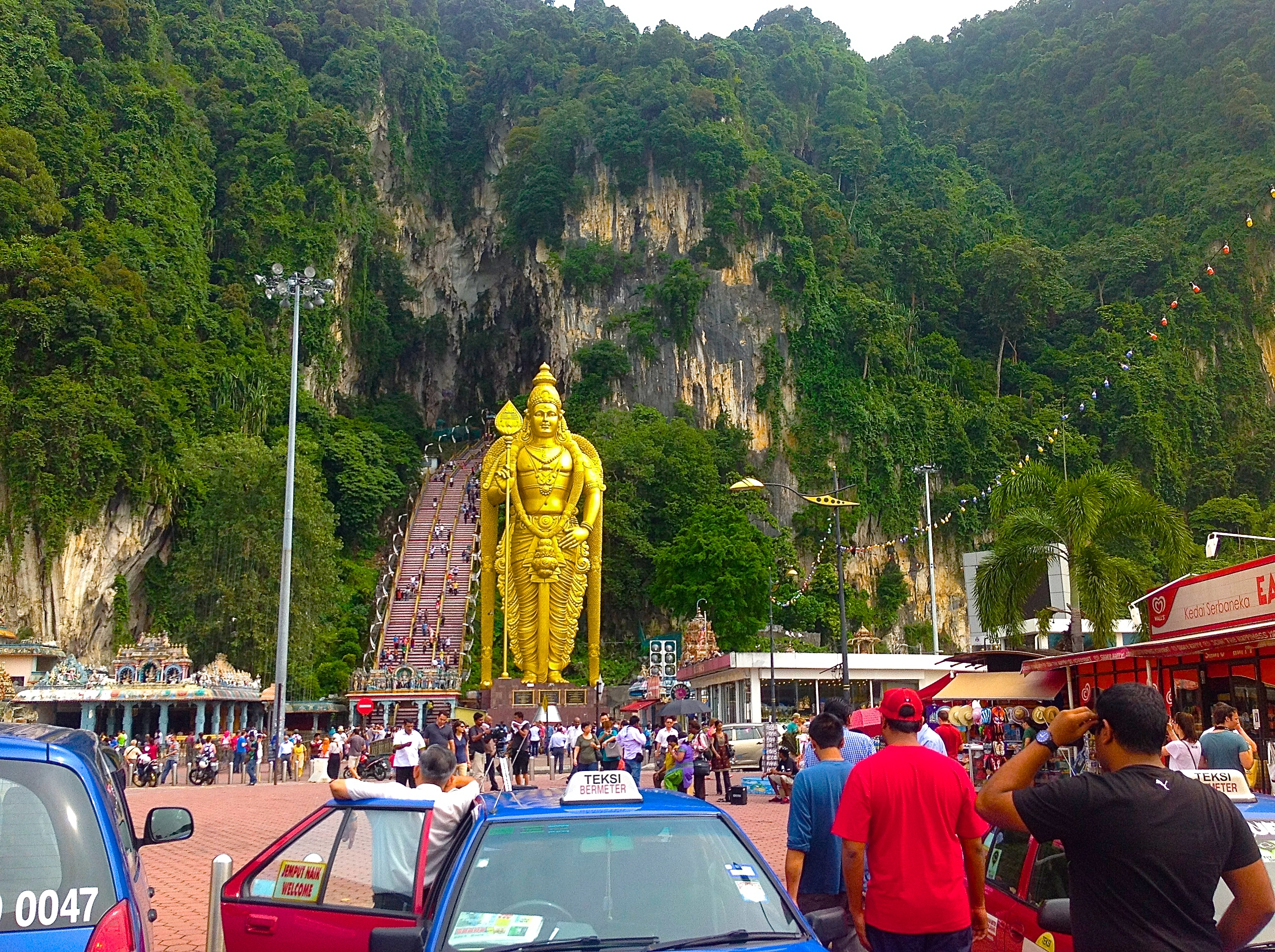 Batu Caves Kuala Lumpur (Photo enhanced from iPhoto)